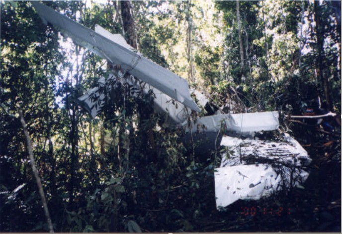 Body of Dirgantara Flight 3130